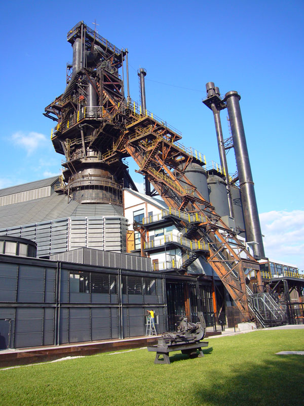 The former Fundidora de Acero de Monterrey steel mill near Monterrey, México. Present day location of Parque Fundidora, a public park preserving the sculptural mill ruins, and the new Museo del Acero (steel museum).